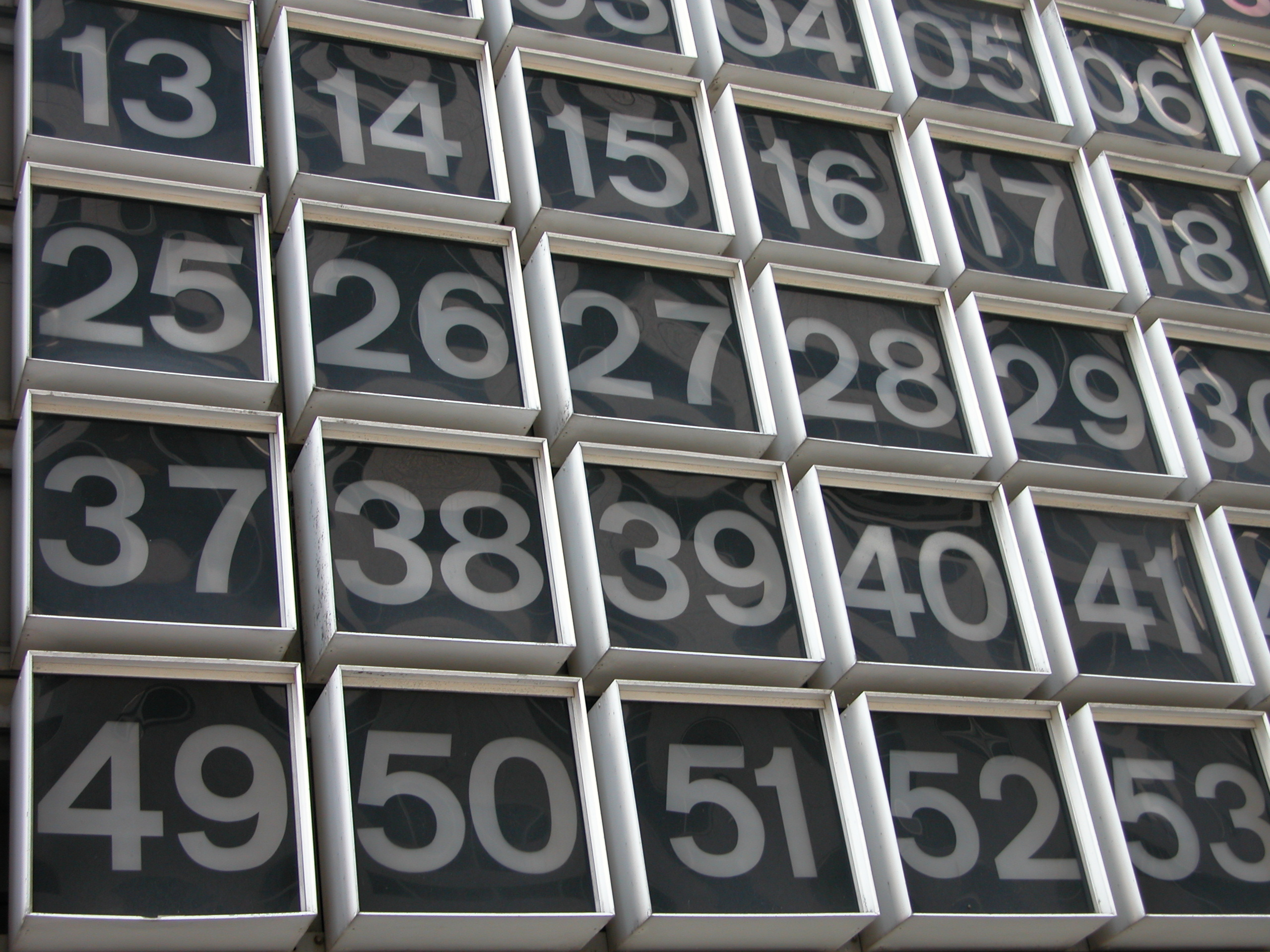 Numbers grid in New Yorknumbers